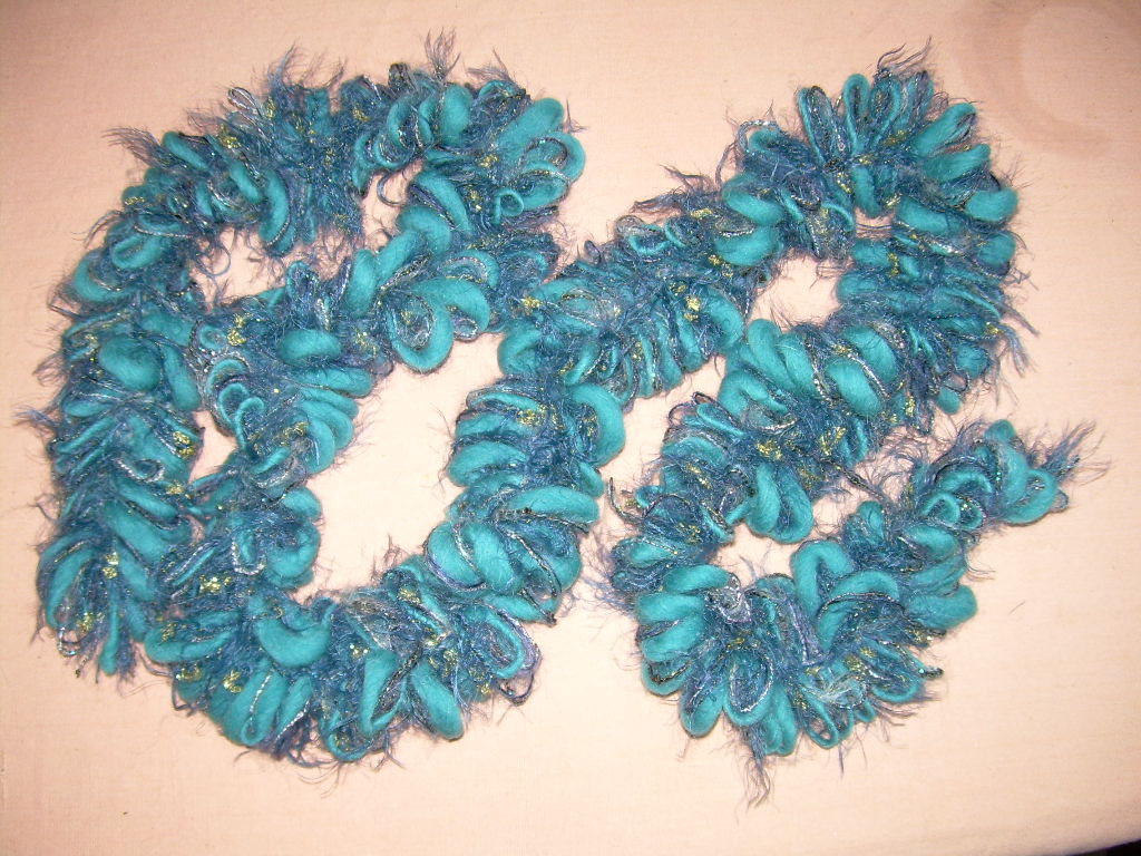 Boa made of yarn